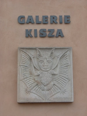 Kisza Gallery my photo of the logo on the house